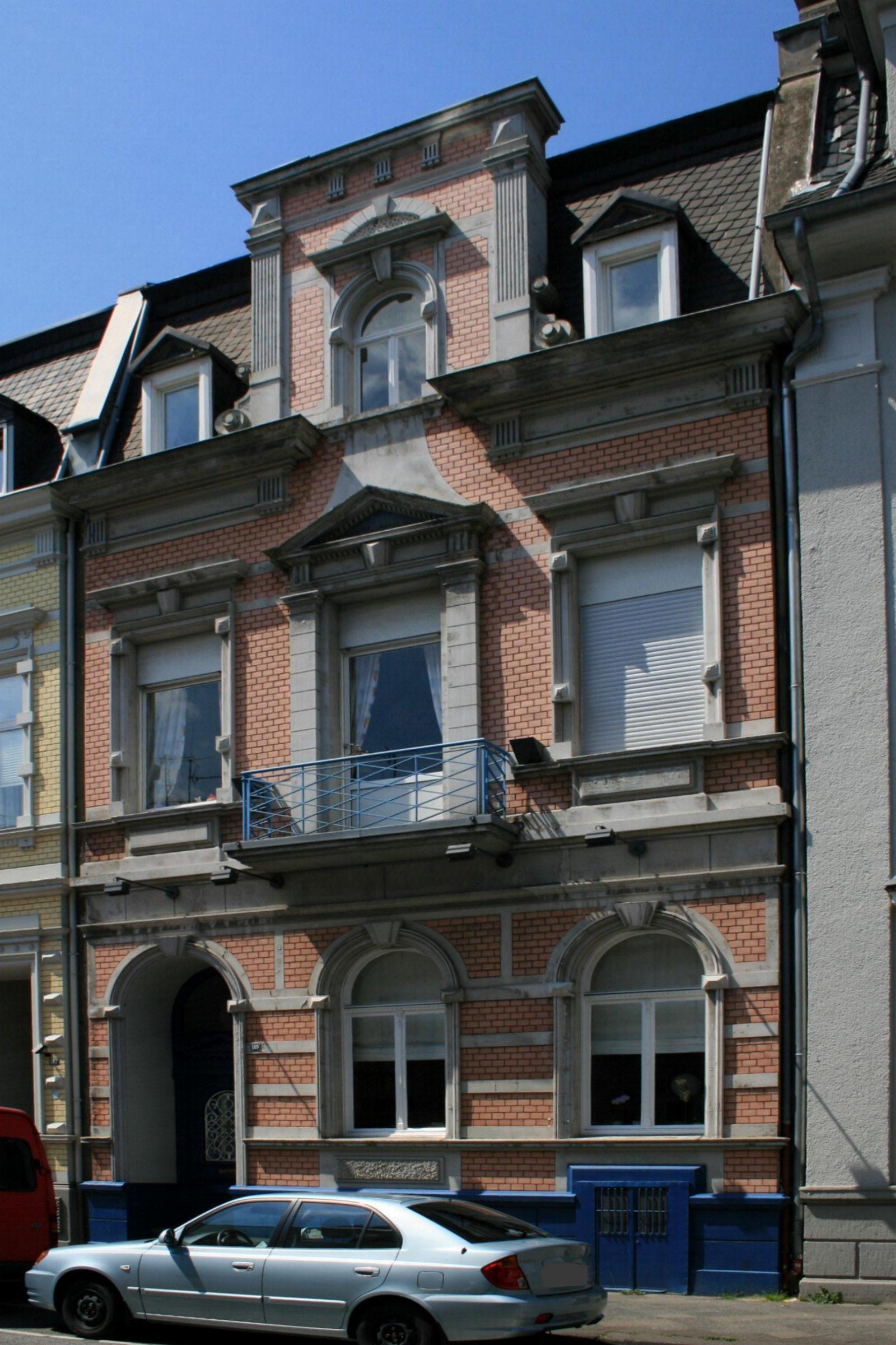 Cultural heritage monument No. K 069 in Mönchengladbach